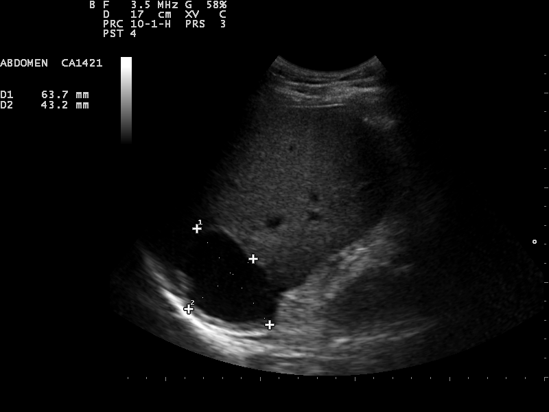 Medical ultrasound image. Provided as-is. Please feel free to categorise, add description, crop.